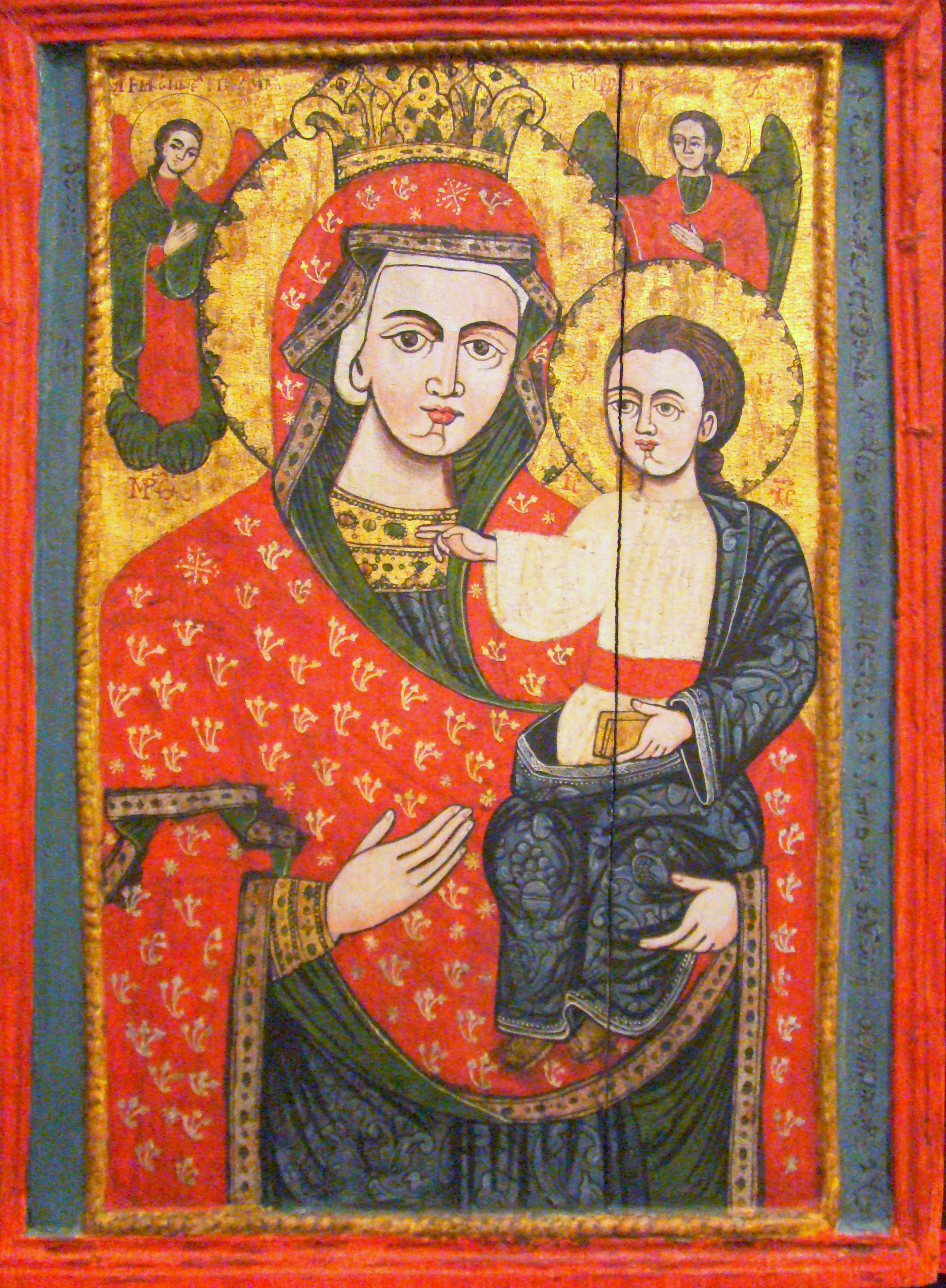 Icon that belonged to the orthodox church in Luna de Sus, Cluj county, Romania